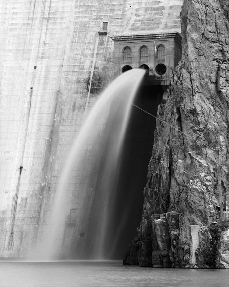 Owyhee Dam spillway. NORTH SIDE OF VALVEHOUSE. VIEW TO SOUTHEAST.